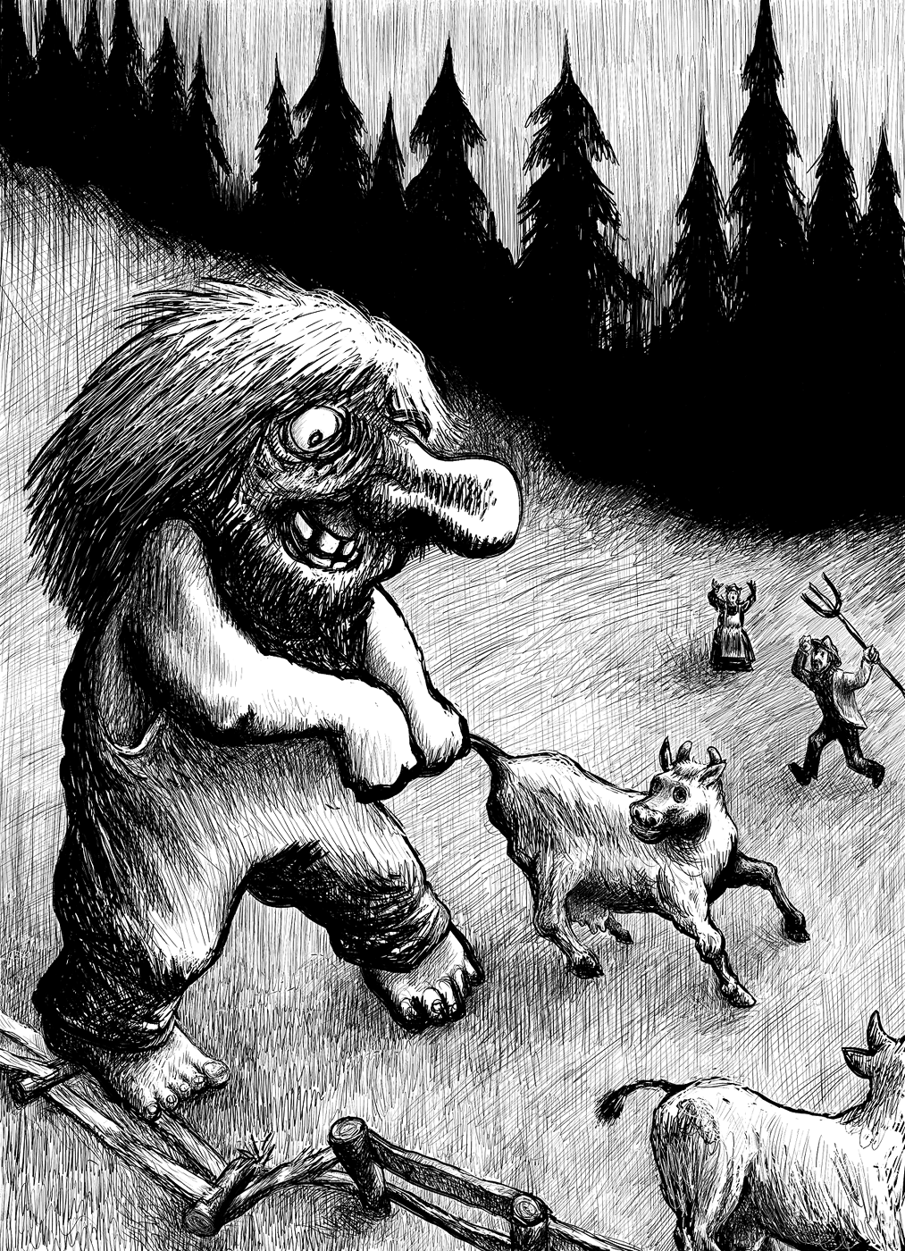 two farmers fighting a troll who seems to try to make his dinner of a cow